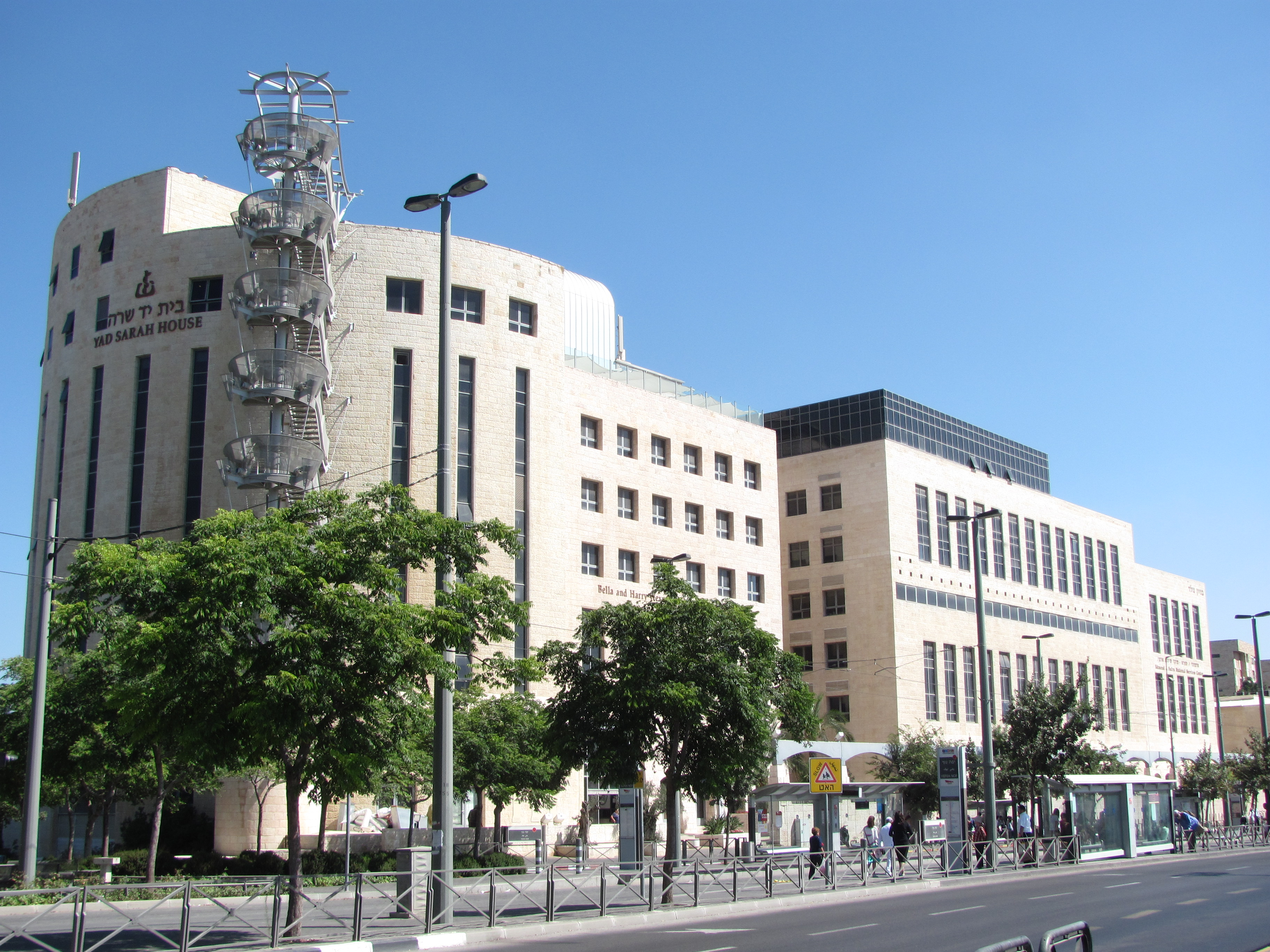 Yad Sarah House, main headquarters of Yad Sarah in Jerusalem, Israel.